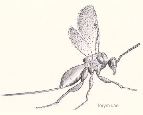 A drawing by Halvard from Norway.